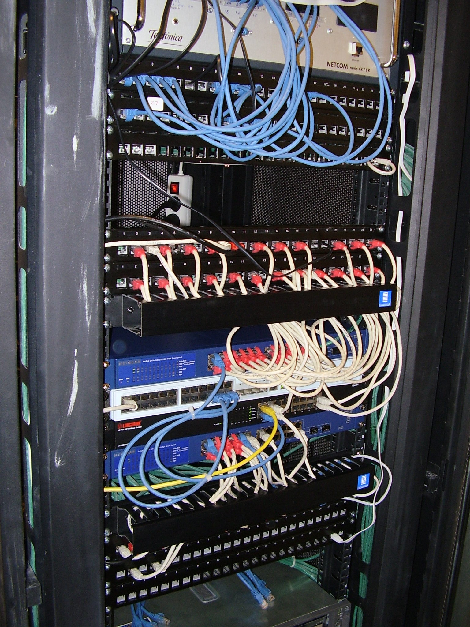 Network rack, showing a detail of the cabling.